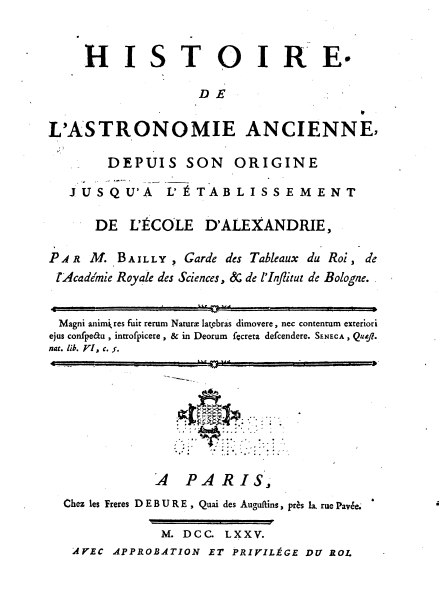 Frontispiece of the "Histoire de l'astronomie ancienne" bu Jean Sylvain Bailly.